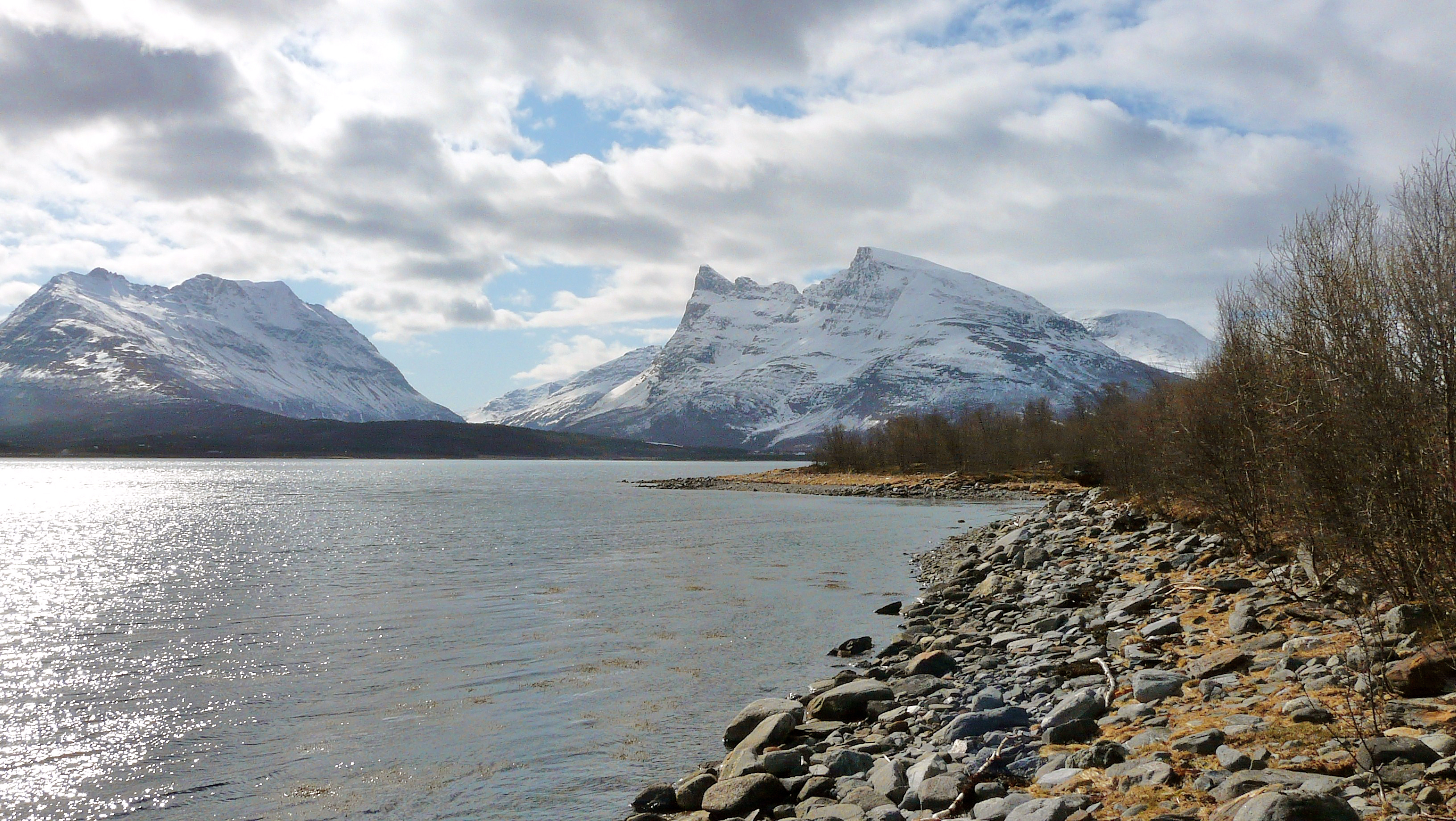 A view of Storfjorden towards south as seen from a coast by the Riksvei 868 road heading south towards Oteren. The mountain on the right is Mannfjellet (its highest summit is 1,552 metres above the sea level) and on the left there is Otertinden (1,356 m) and Oteraksla (1,235 m). The picture has been taken in 2009 May.